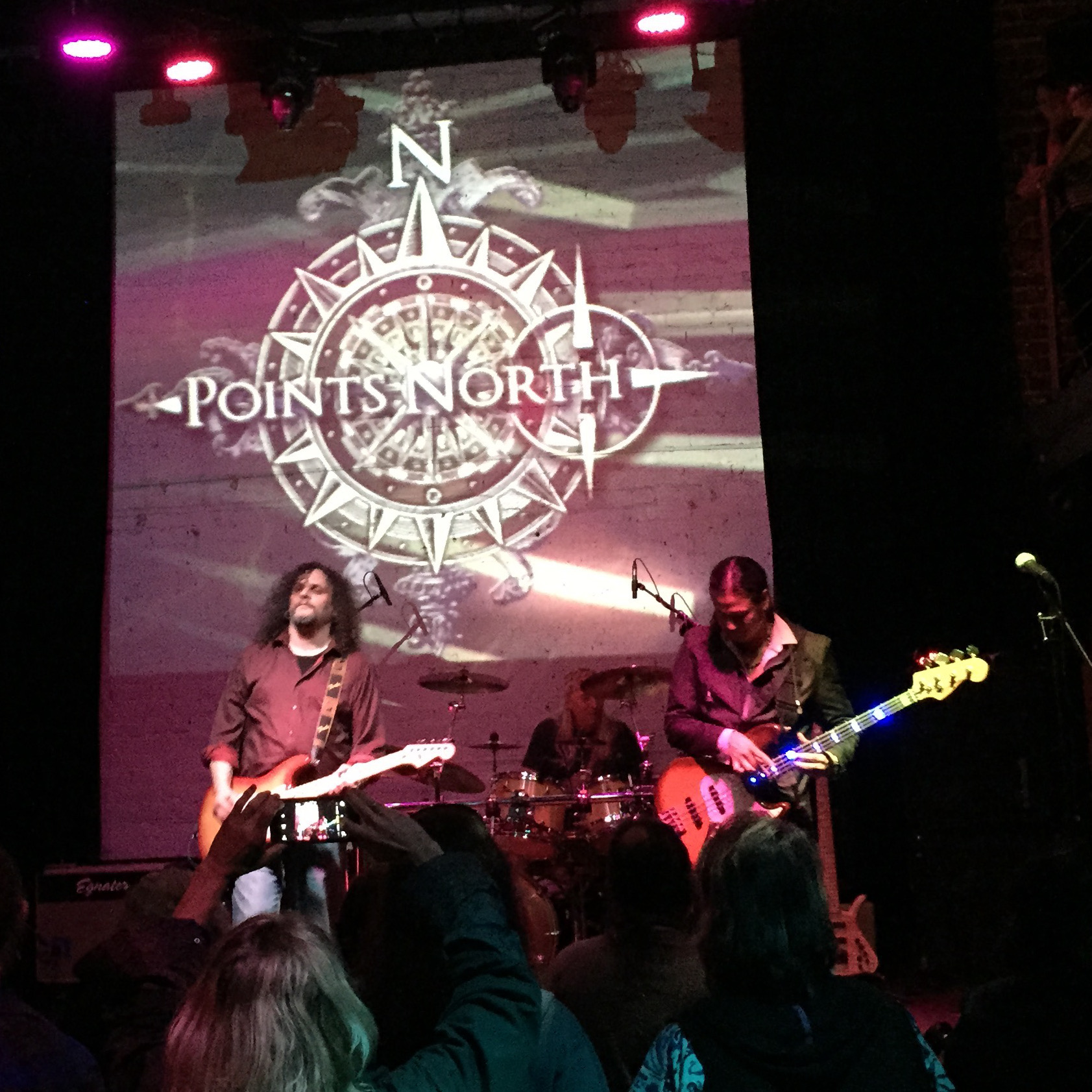 The band "Points North" (Eric Barnett, Kevin Aiello and Uriah Duffy) at The New Parish in Oakland, CA on May 29, 2015 upon the release of their self-titled second CD.